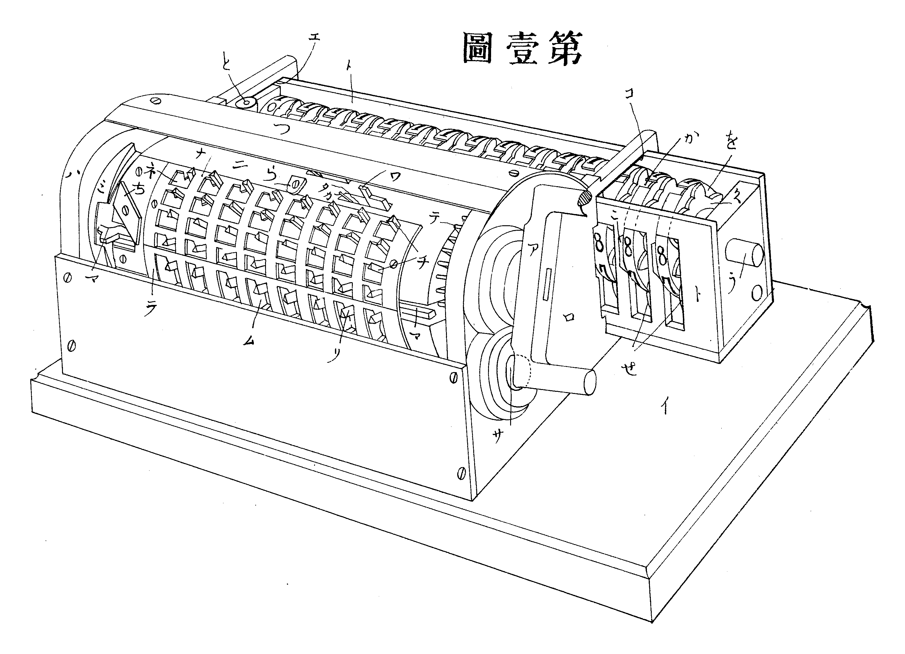 Schematic of Patented Yazu Arithmometer, Japan Patent No. 6010 Fig. 1 (1903)